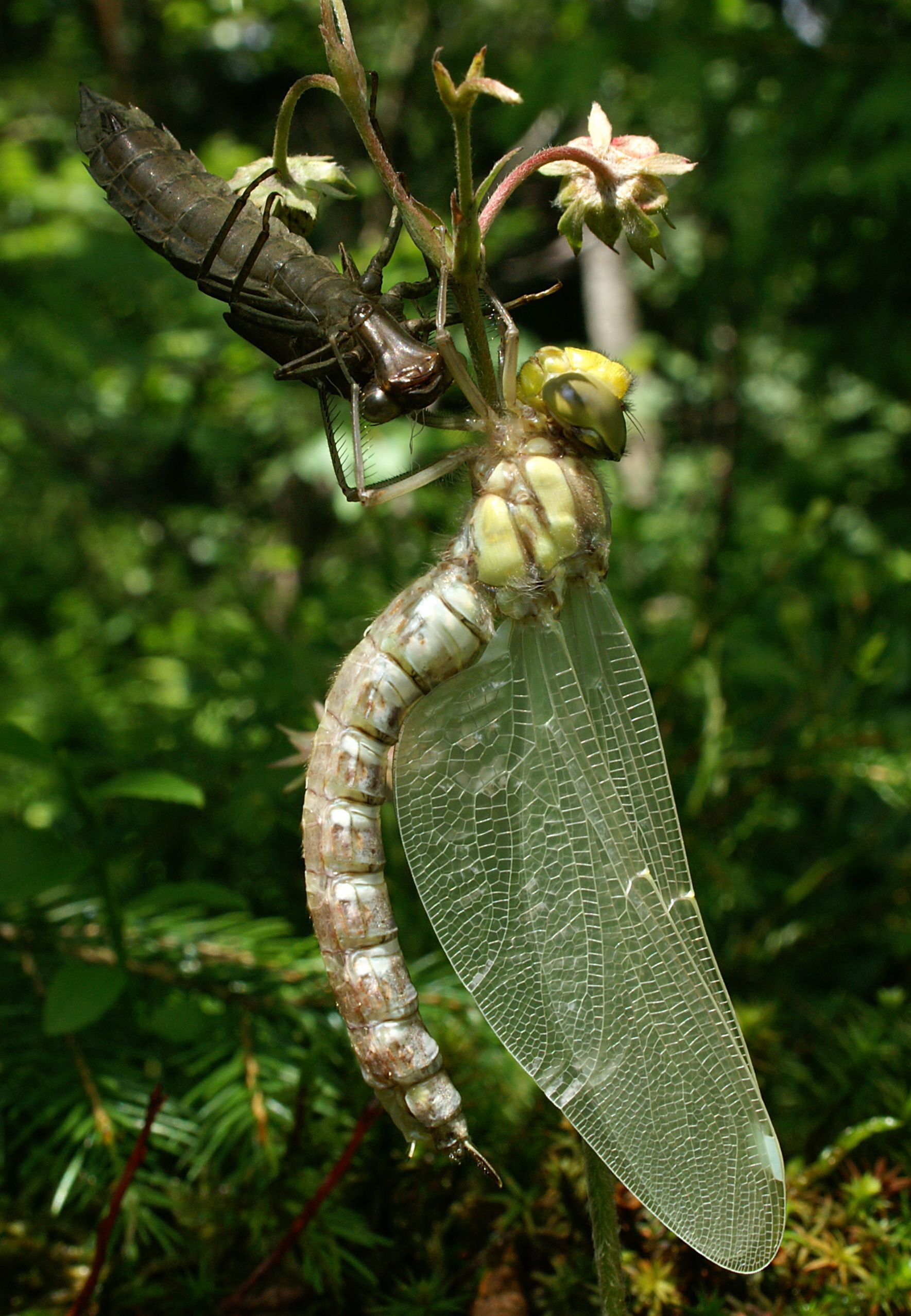 Aeshna cyanea and Exuvie.